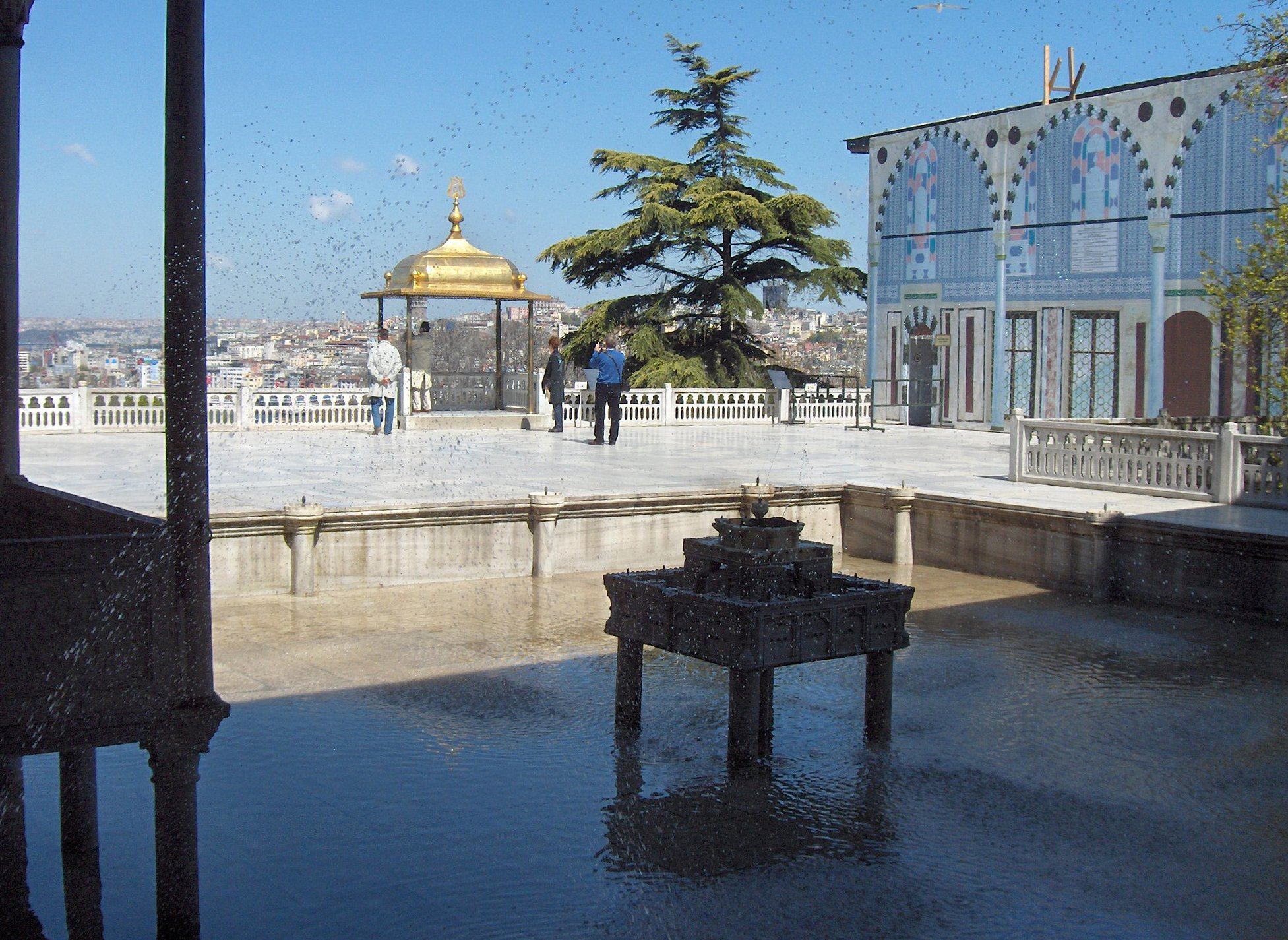 The Iftar bower, the gilded pavilion, at balustrade with fountain in foreground. The tile walled Baghdad kiosk is on the right side (under restoration). All are in the Fourth Courtyard of the Topkapı Palace, Istanbul, Turkey.